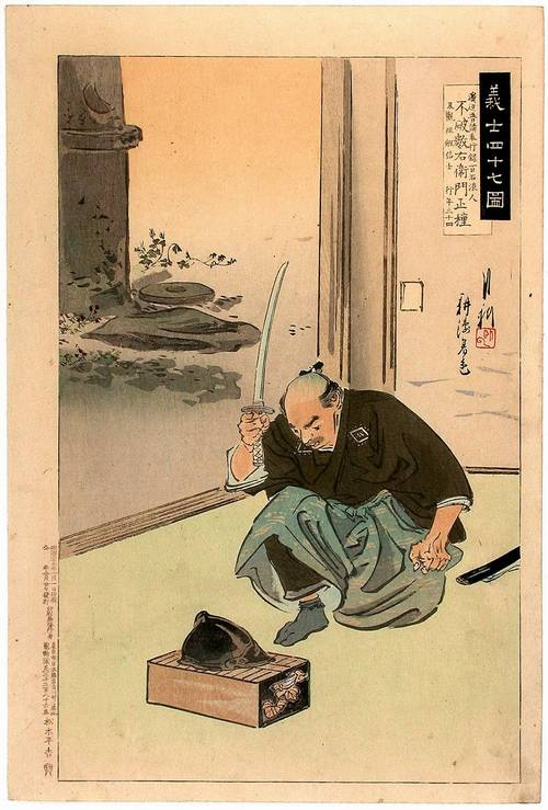 Ronin are masterless samurai. Chushingura is the true story of 47 samurai who became masterless in 1701, after their lord had been forced to commit ritual suicide (seppuku) for assaulting a court official who had insulted him. They avenged him by killing the court official after patiently planning for over a year. They were themselves then forced to commit seppuku.